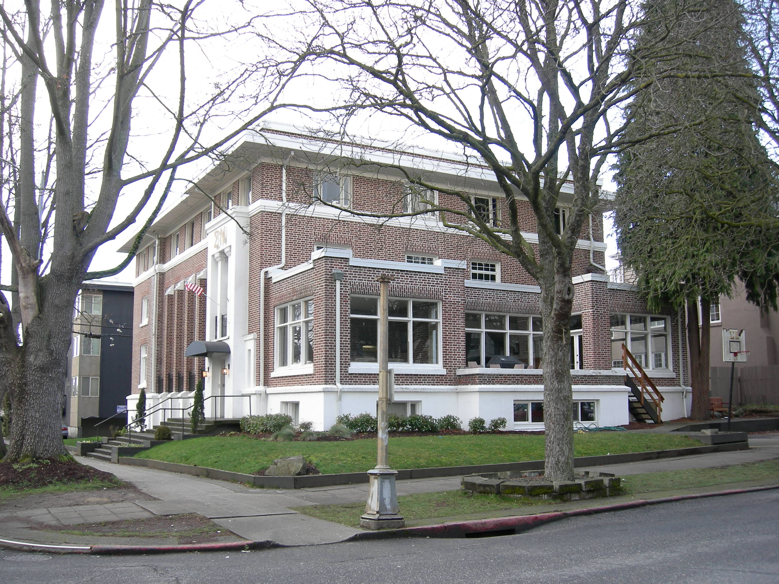 Sigma Nu fraternity house, University of Washington, Seattle, Washington, USA. 1616 NE 47th St. Designed by Ellsworth Storey. Built 1916. See Summary for 1616 NE 47th ST NE / Parcel ID 8823901960, Seattle Department of Neighborhoods for more about the building.